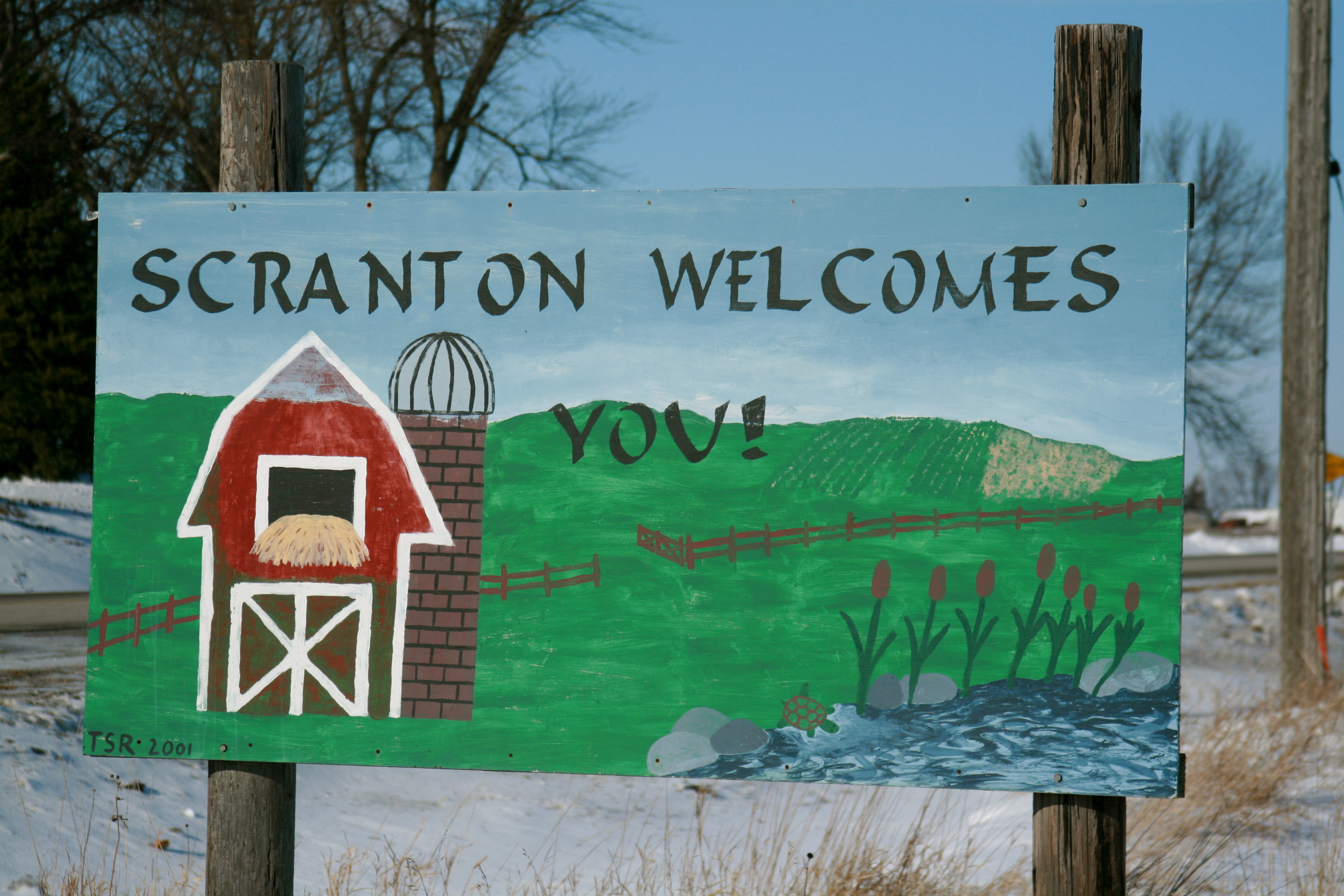 Welcome sign located outside Scranton, Iowa